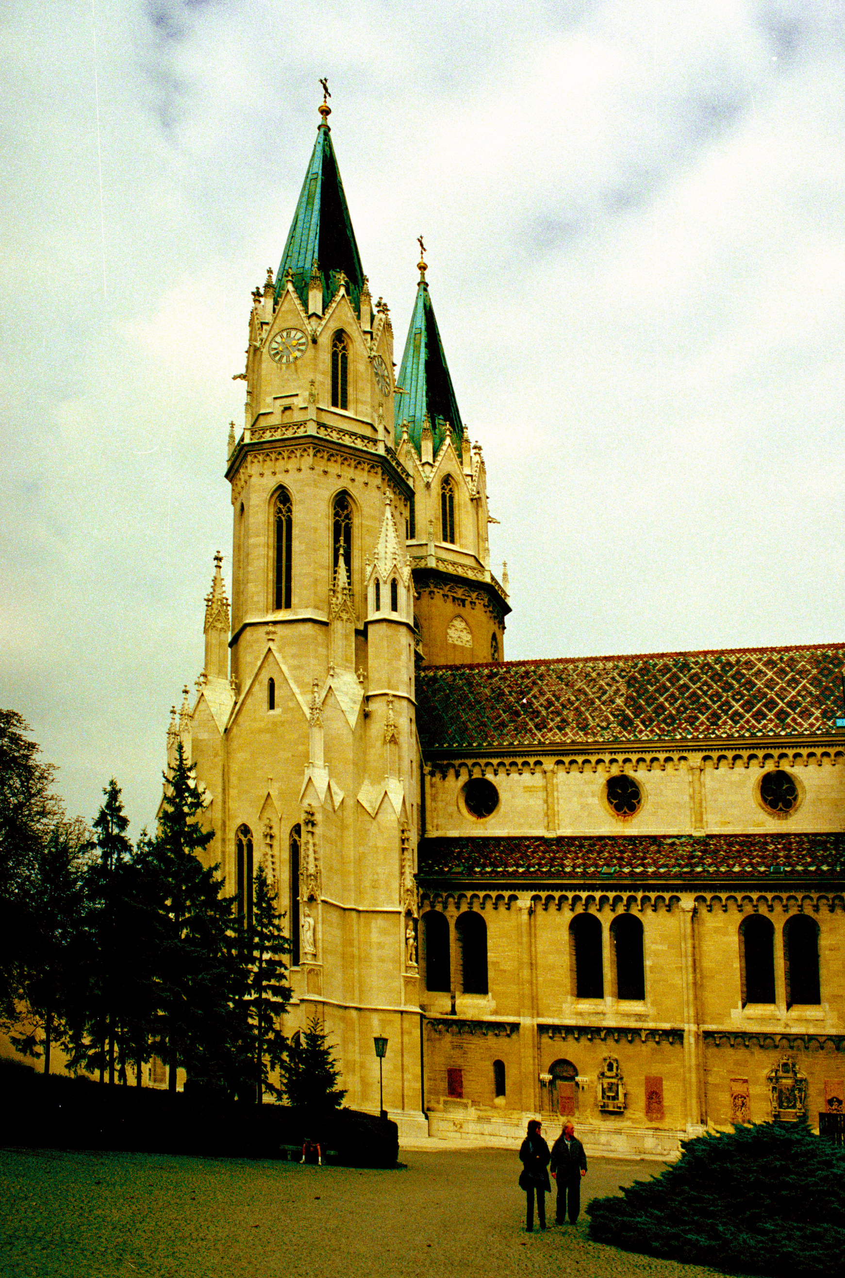 Stiftskirche Klosterneuburg